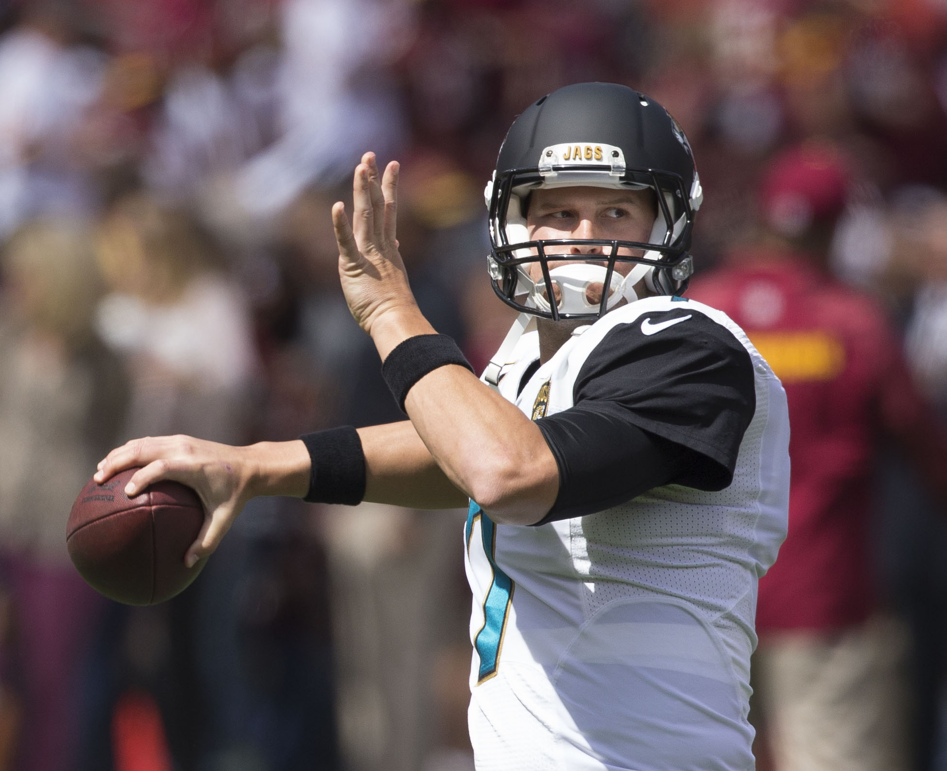 Jaguars at Redskins 9/14/14